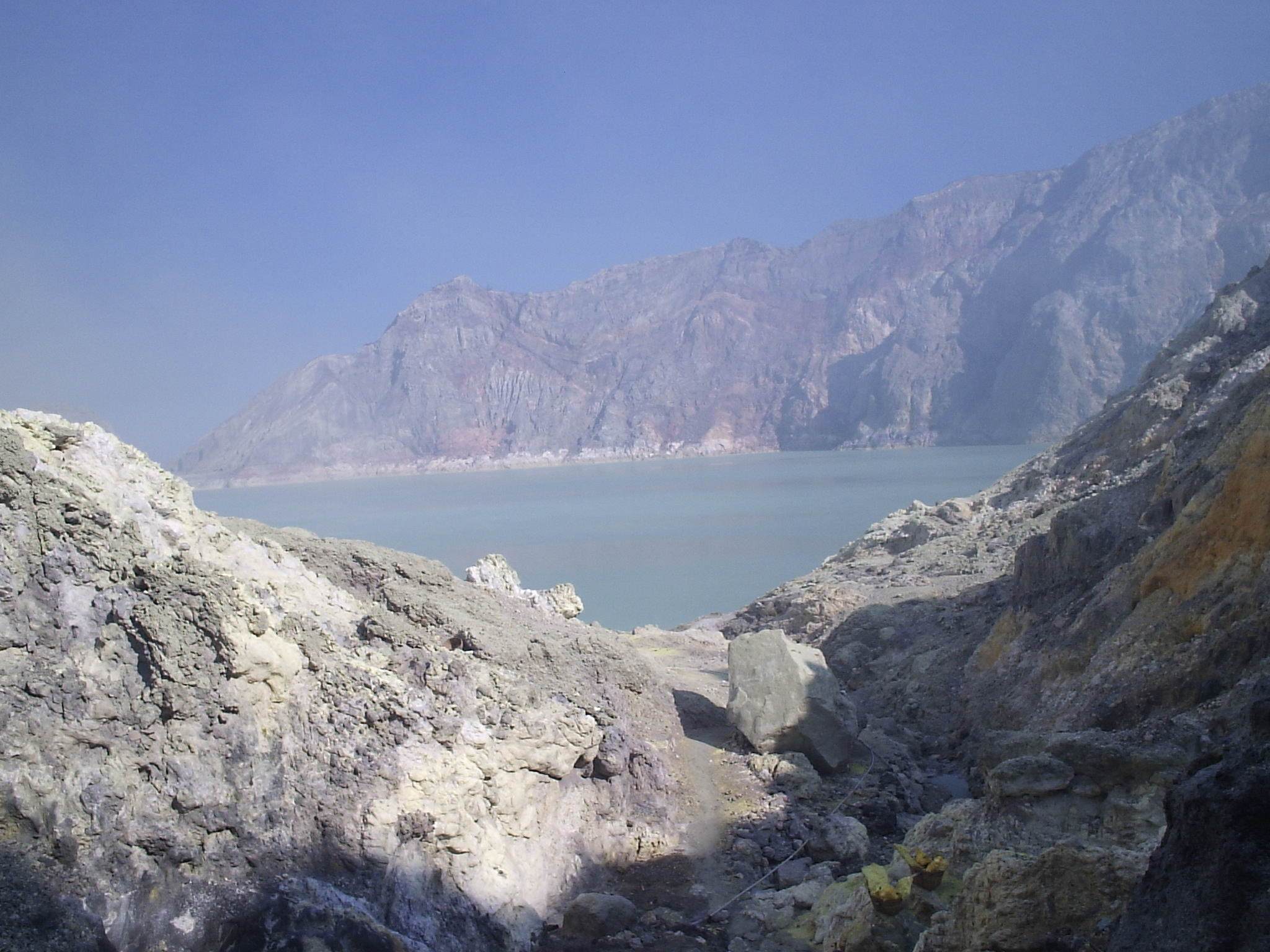 Ijen volcano, Java, Indonesia.or at lampung Created by User:Doreki from the Romanian Wikipedia.